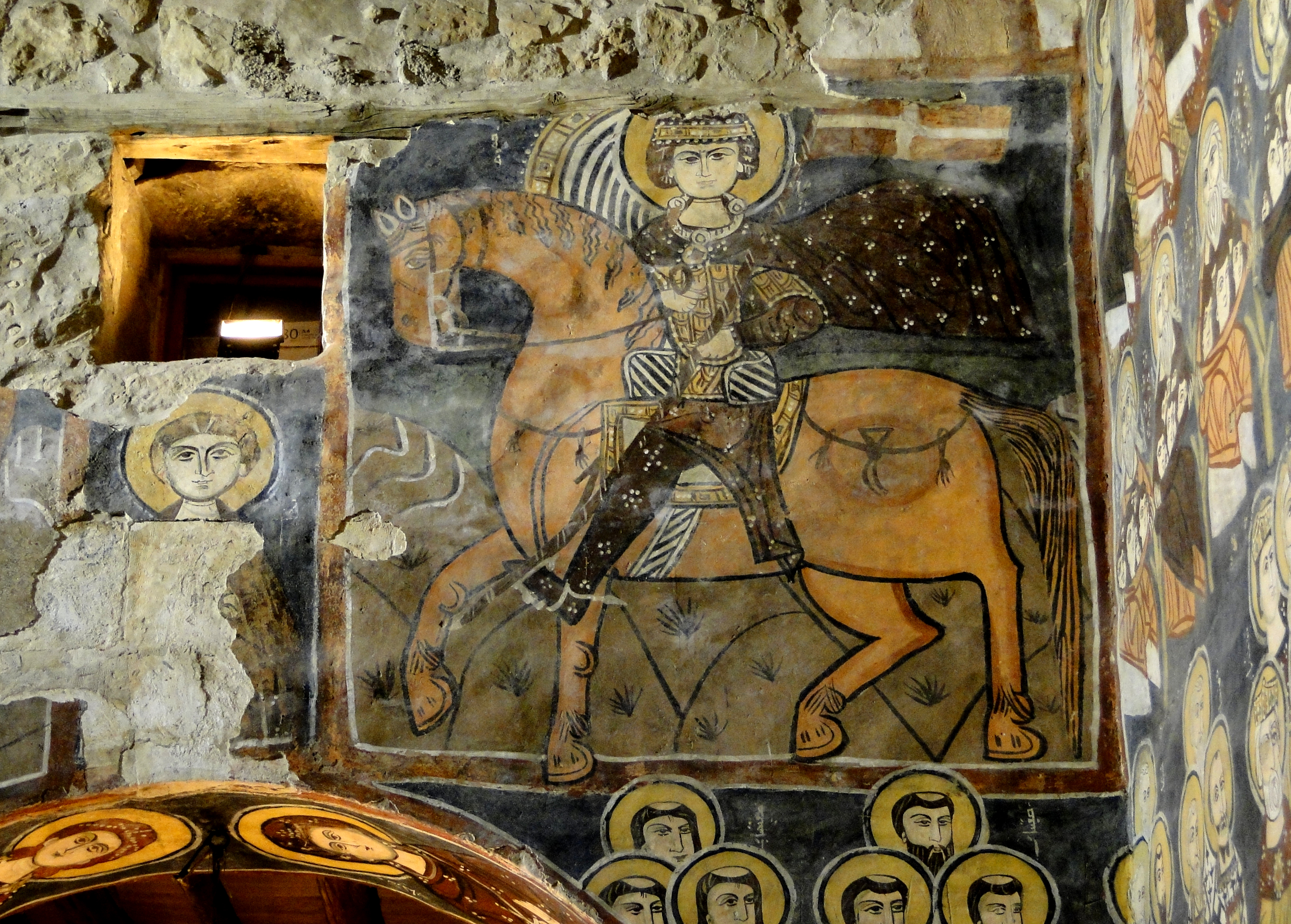 Frescos in the Church of Deir Mar Musa al-Habashi or Monastery of Saint Moses the Abyssinian, Syria